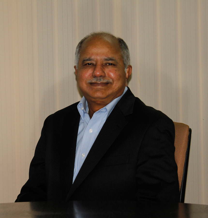 Prof. Raj Reddy photographed specifically to put a photo up on wikipedia.